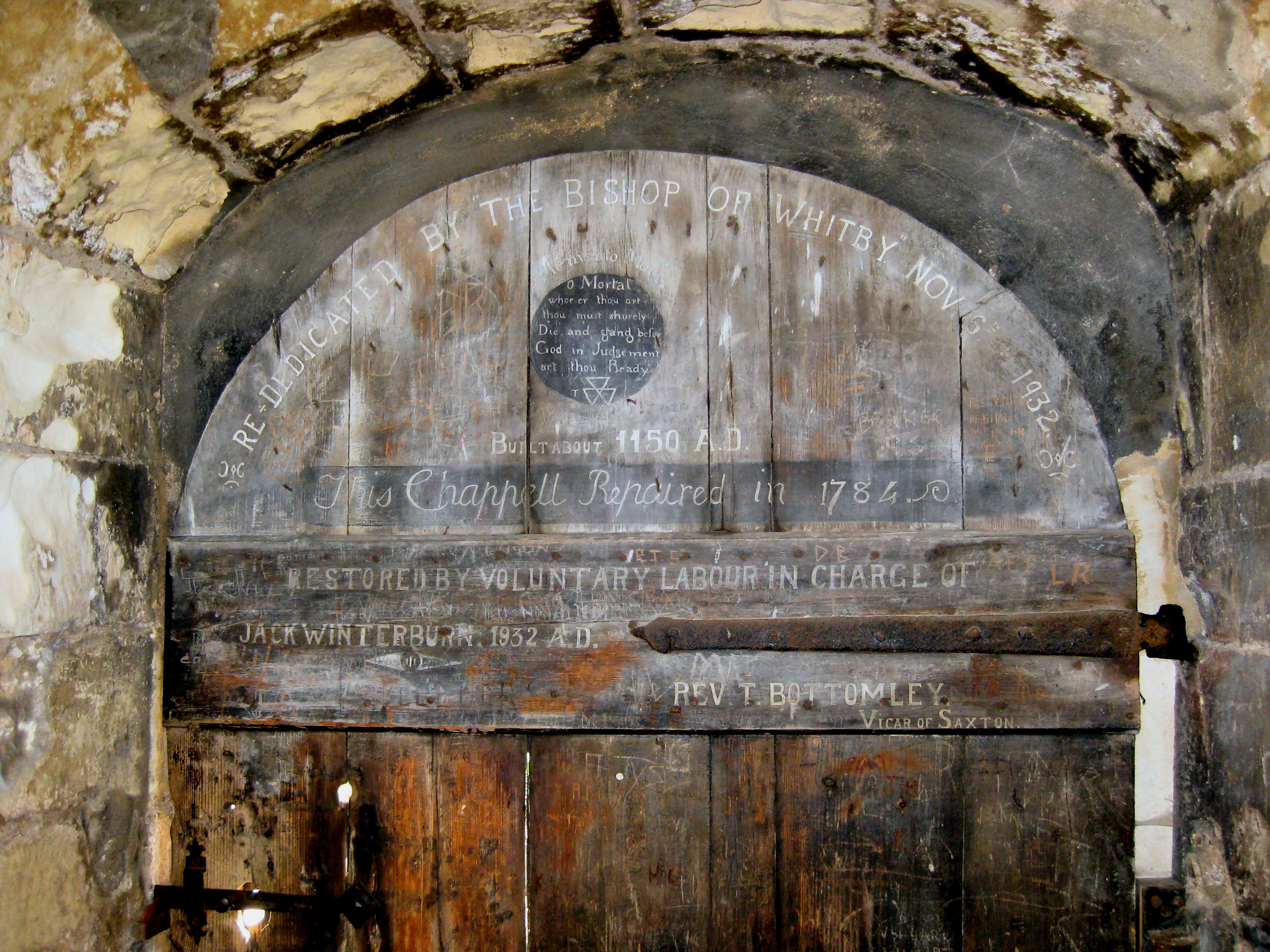 Interior of door to St Mary's church, Lead, North Yorkshire, England. The door probably dates from the 1784 repair referred to.